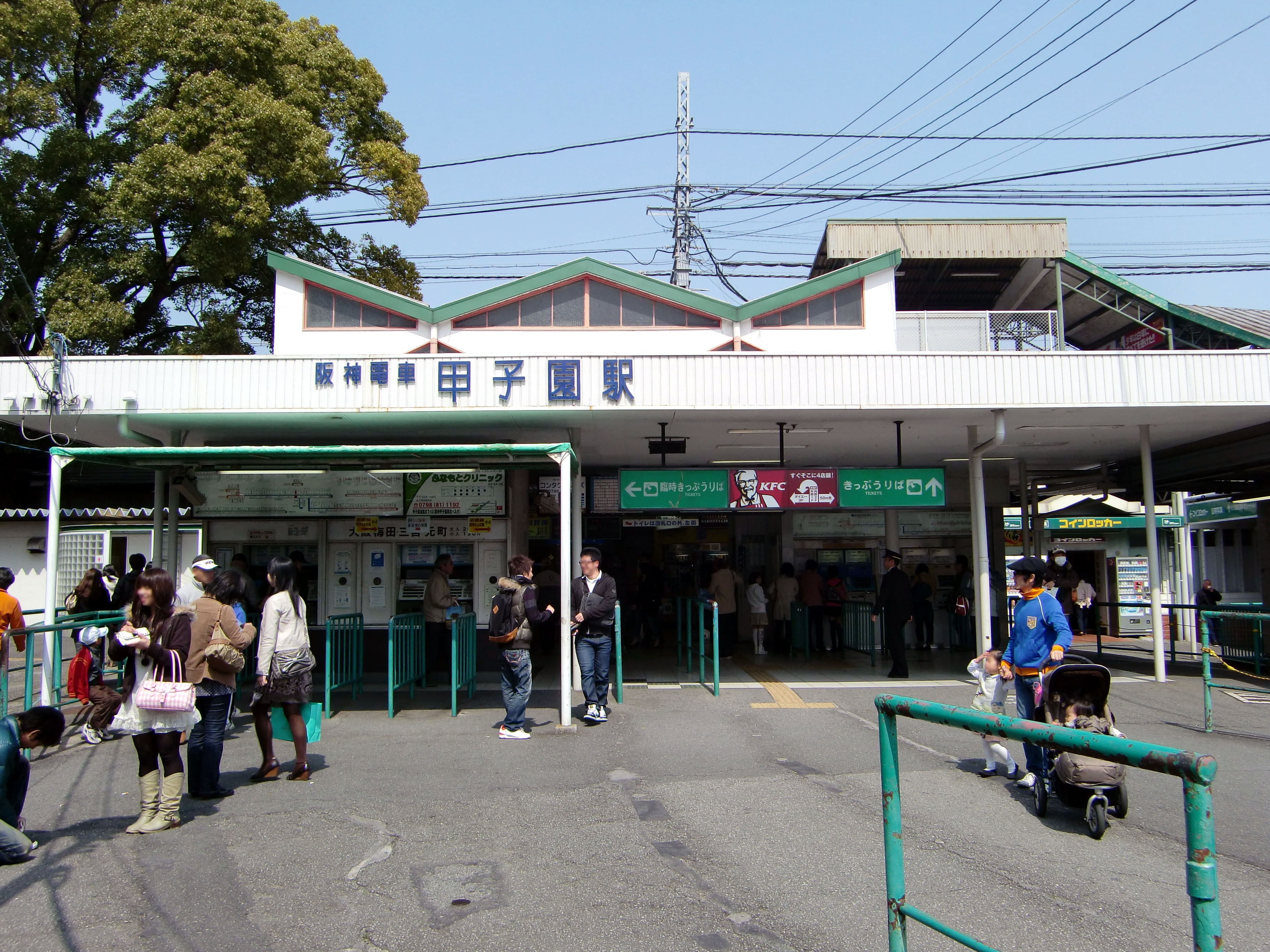 Hanshin Koshien Station(West Gate),1-1 Nanabancho Nishinomiya-city Hyogo Japan.